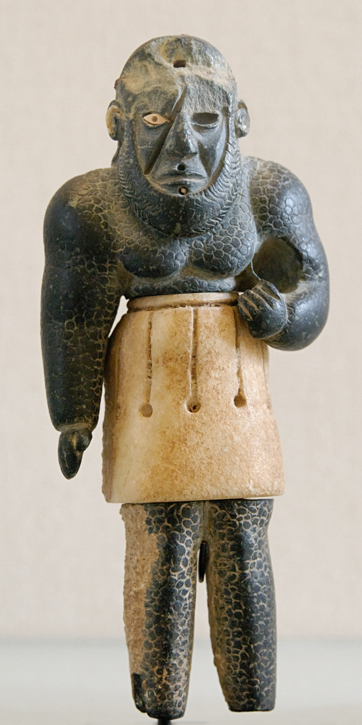 So-called “Scarface”, composite statuette of an anthropomorphic dragon-snake. Chlorite, calcite, meteoritic iron, and shell (?), late 3rd millenium BC or early 2nd millenium BC. From the Shiraz region, Iran.